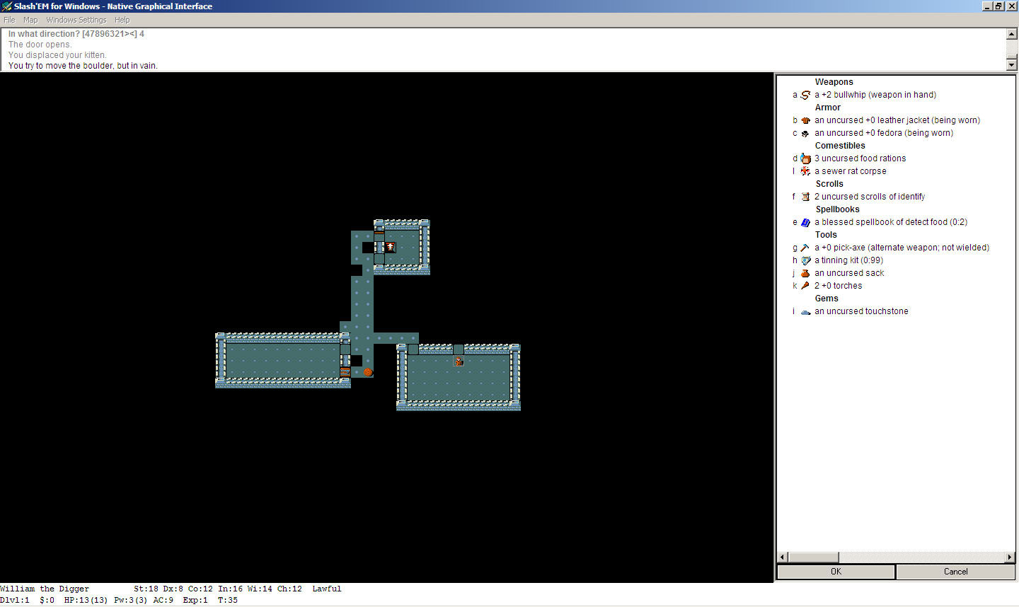 Slash' EM screen shot.